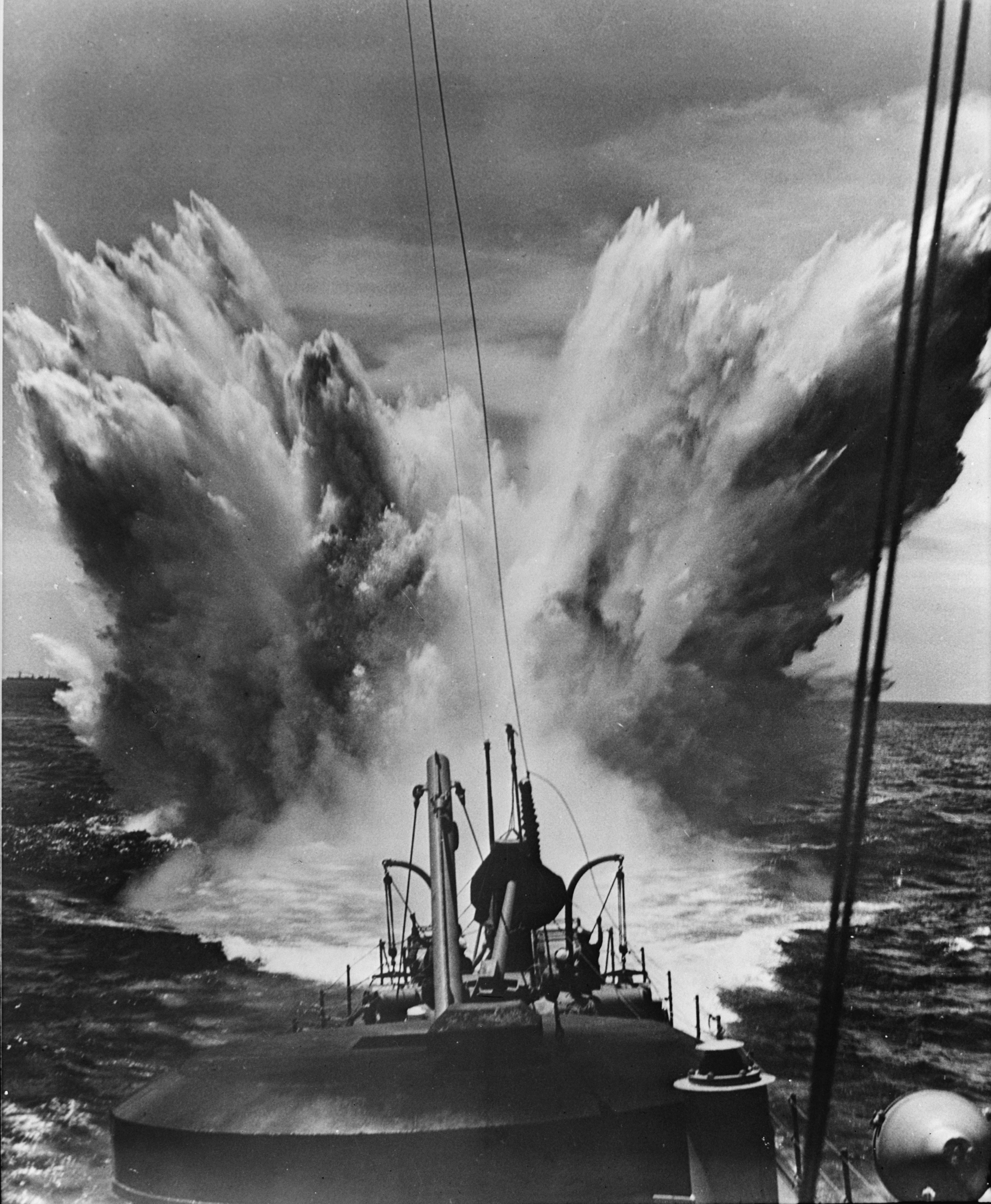 Photo of a depth charge explosion. Note the merchant ship on the horizon (left).